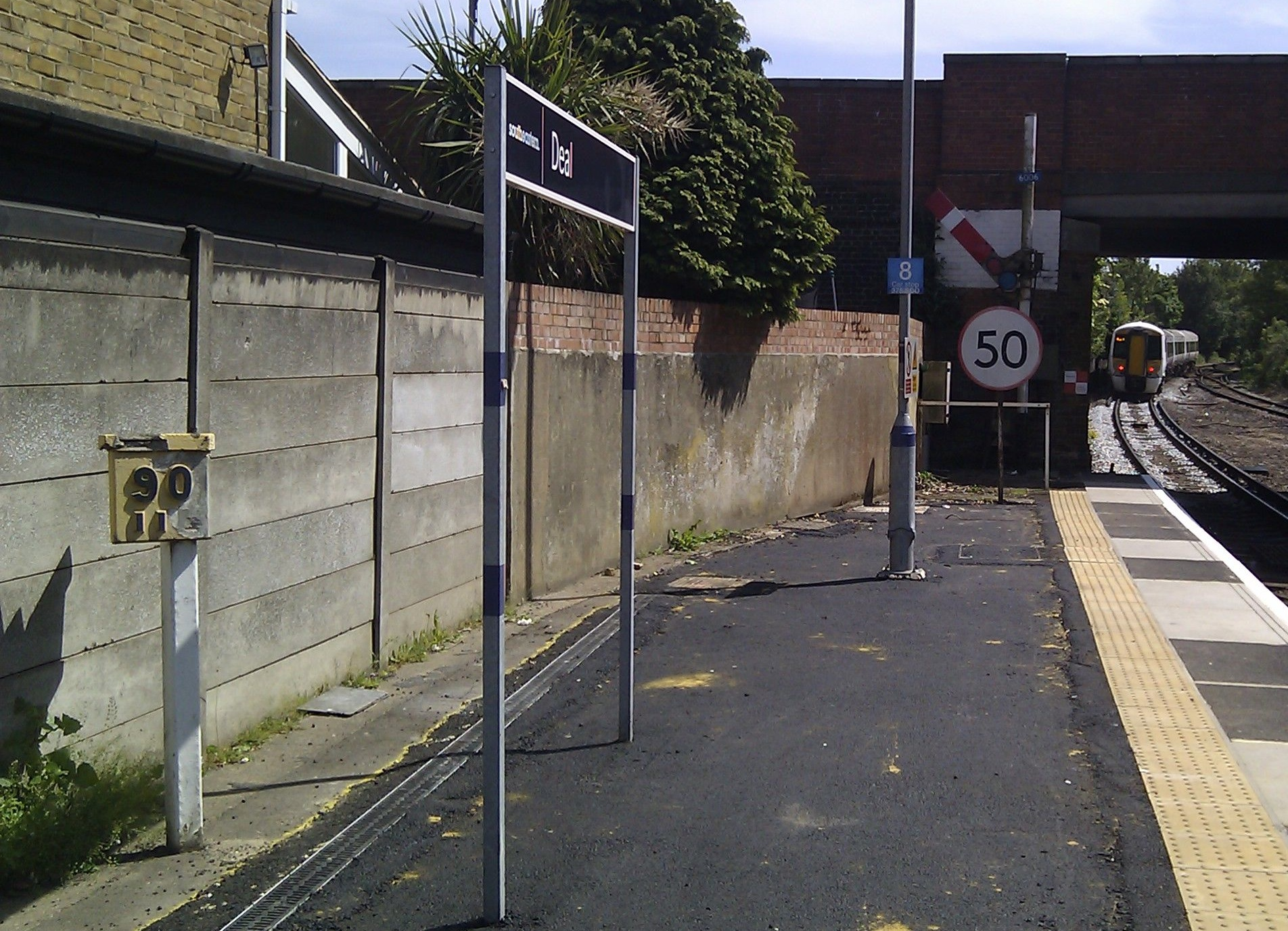 Platform furniture at Deal, including the misleading milepost and a semaphore signal, as an Electrostar departs with the 14:40 to Charing Cross on 23/5/11